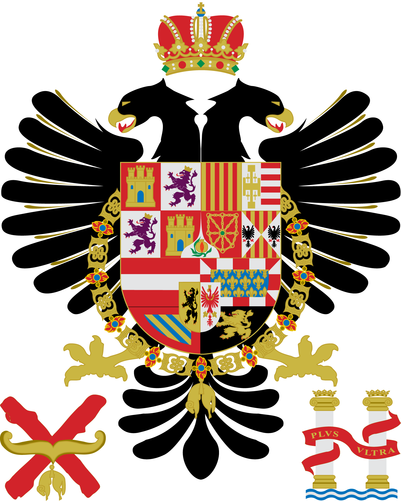 Coat of arms of the Emperor Charles V, Charles I as King of Spain (from 1519 to 1520)